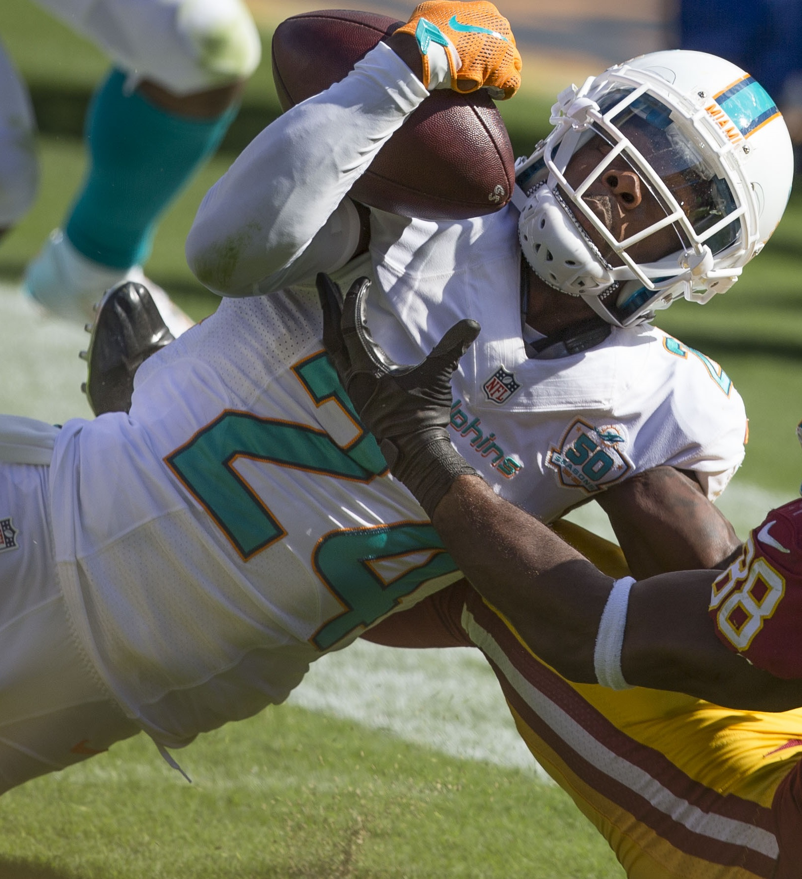 Dolphins at Redskins 9/13/15